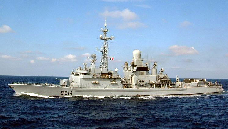 The French frigate Cassard (D 614) off Toulon, France.